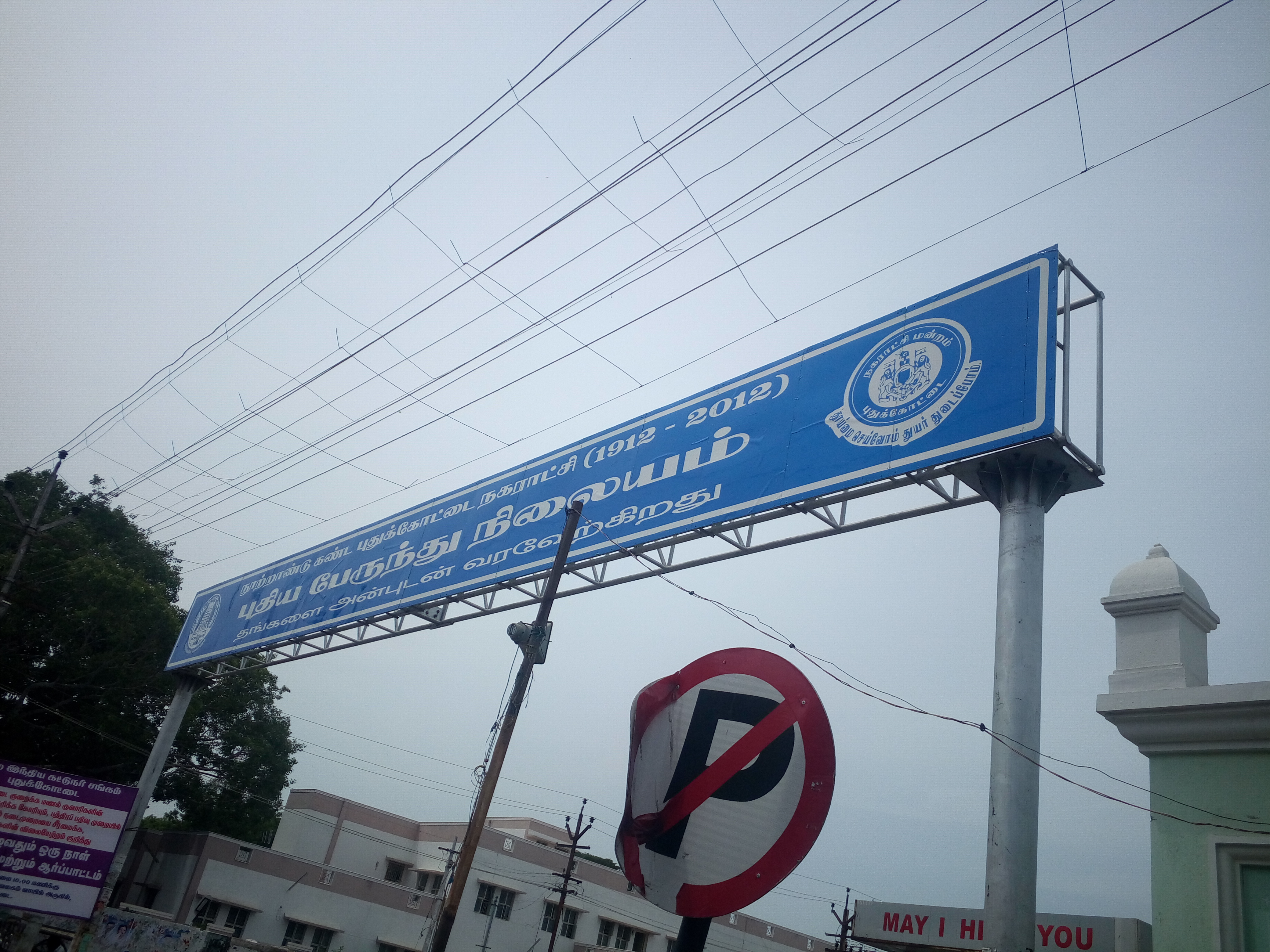 PUDUKKOTTAI BUS STATION